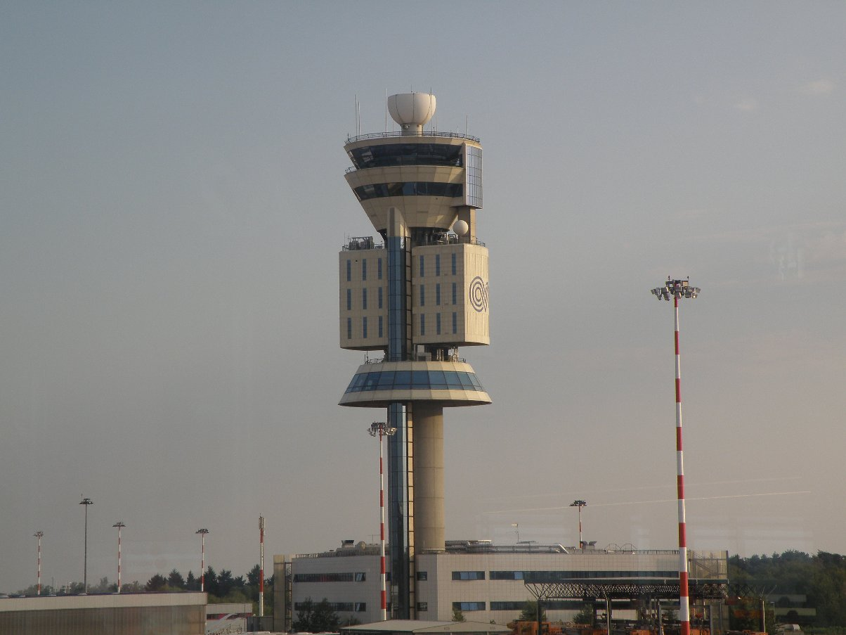 Control tower airport Milano Malpensa MXP LIMC